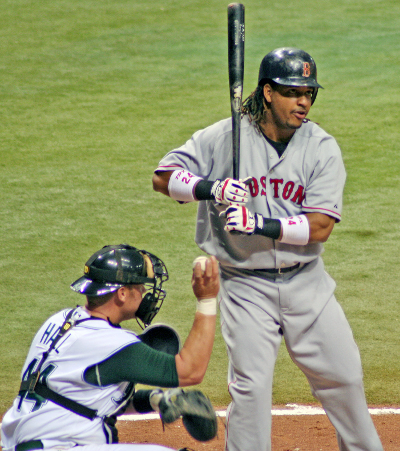 Photograph taken by Googie Man 18:01, 21 December 2006 . . Googie man . . 1331×1500 (1.39 MB)